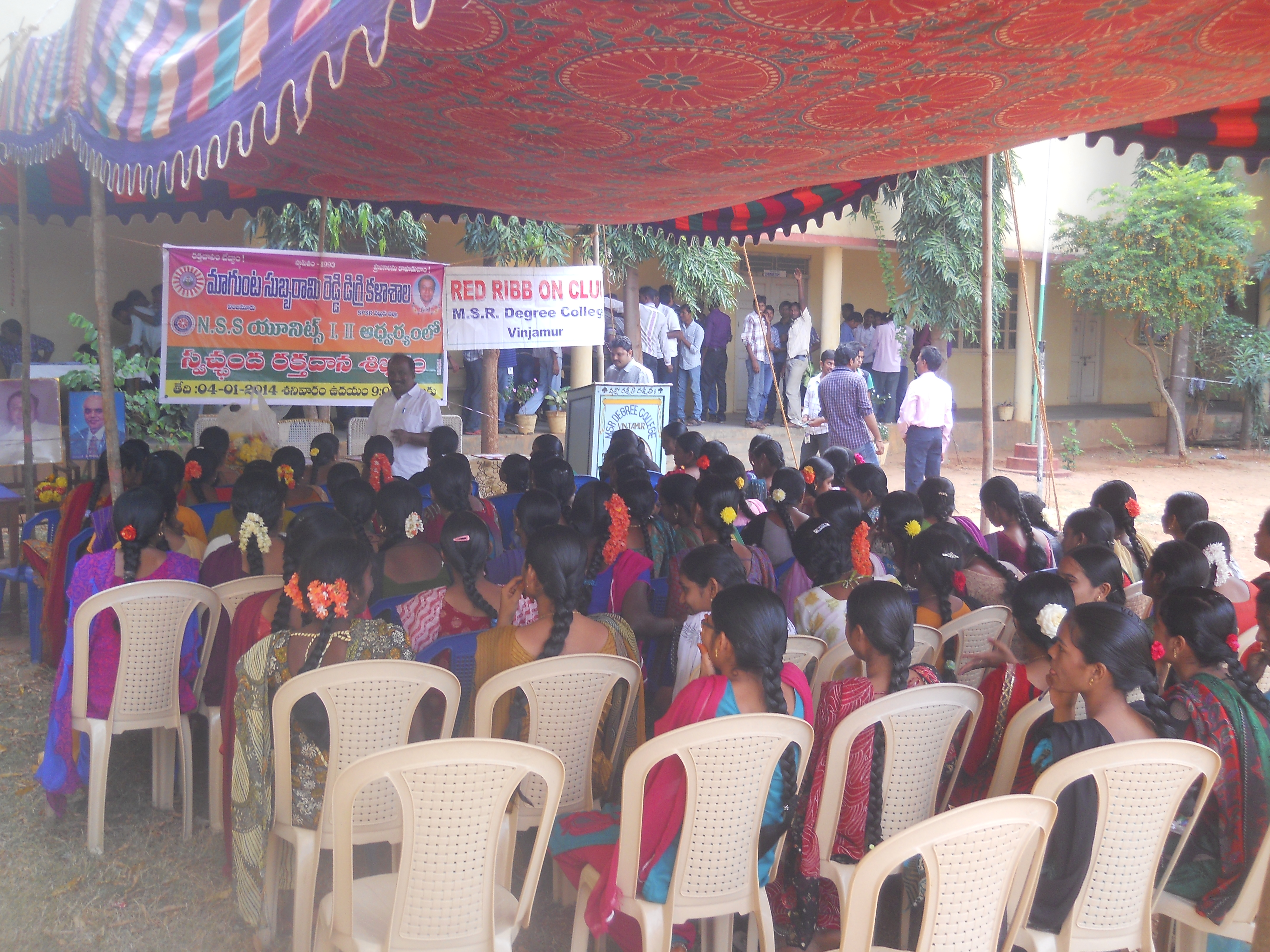 Voluntary Blood donation camp